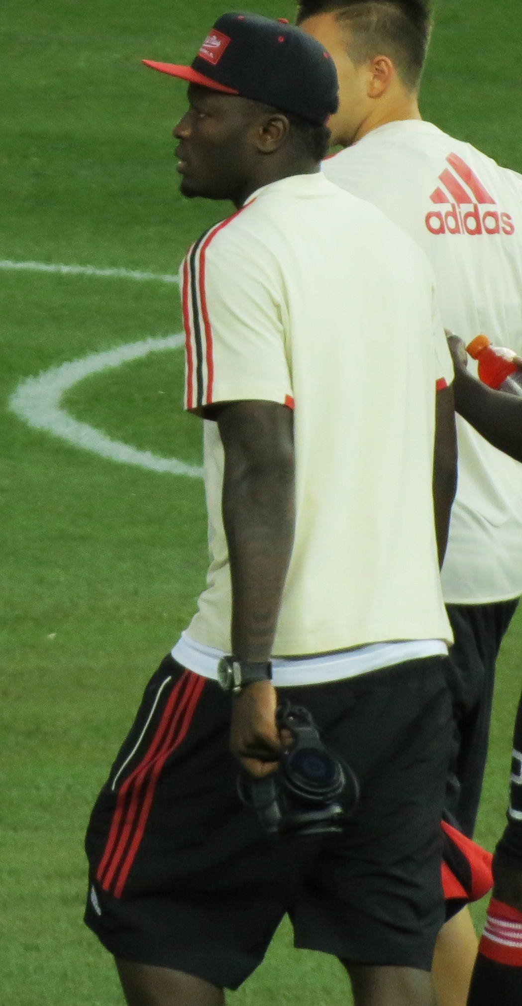 Sulley Muntari of A.C. Milan during the 2012 World Football Challenge.